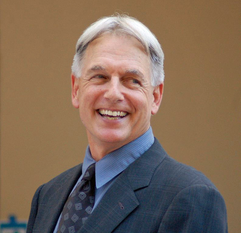 Mark Harmon at a ceremony to receive a star on the Hollywood Walk of Fame.